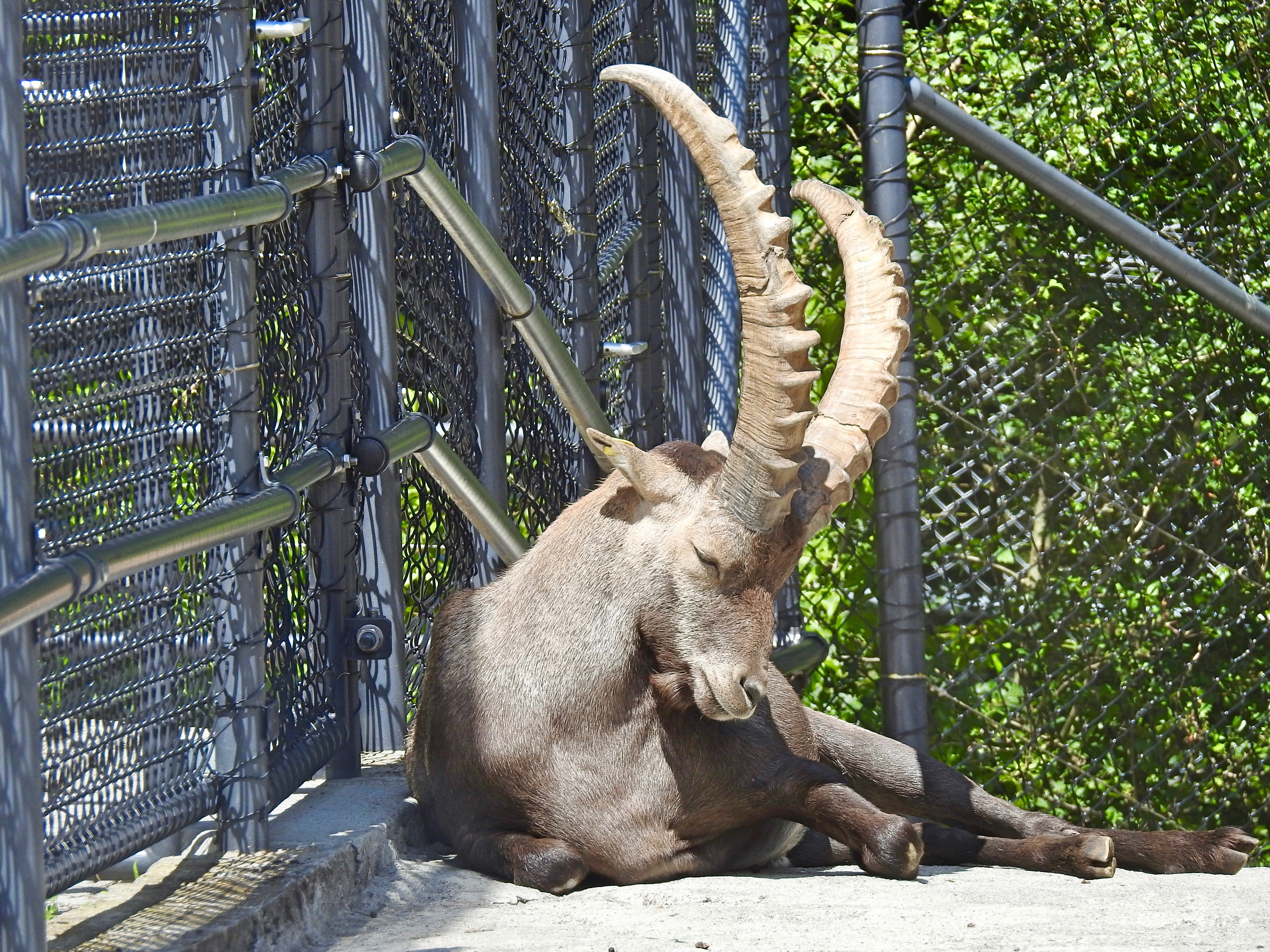 Capricorn in Wildlife Park Peter und Paul, St.Gallen,Switzerland.